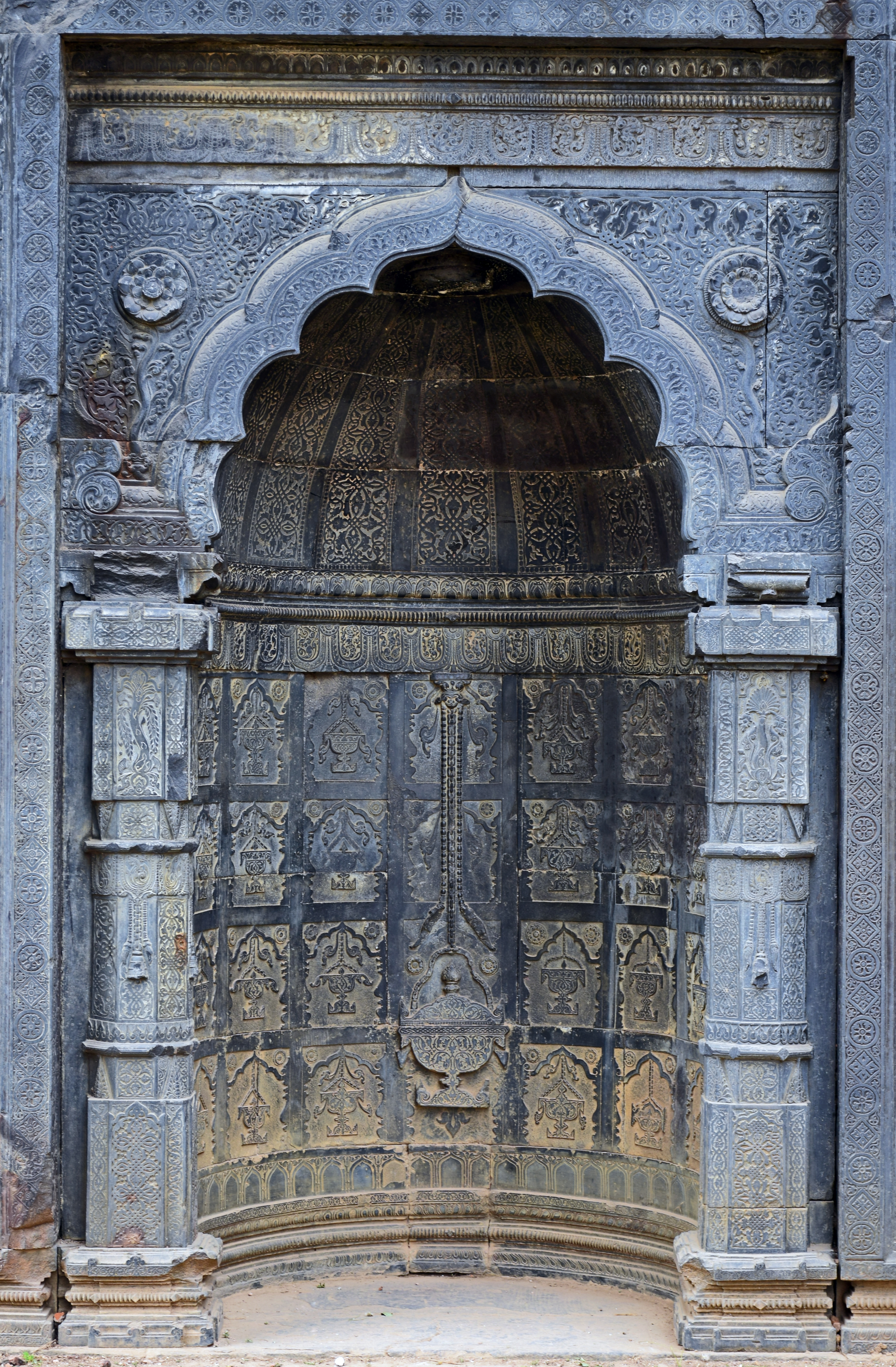 Adina Mosque central mihrab on large basalt wall